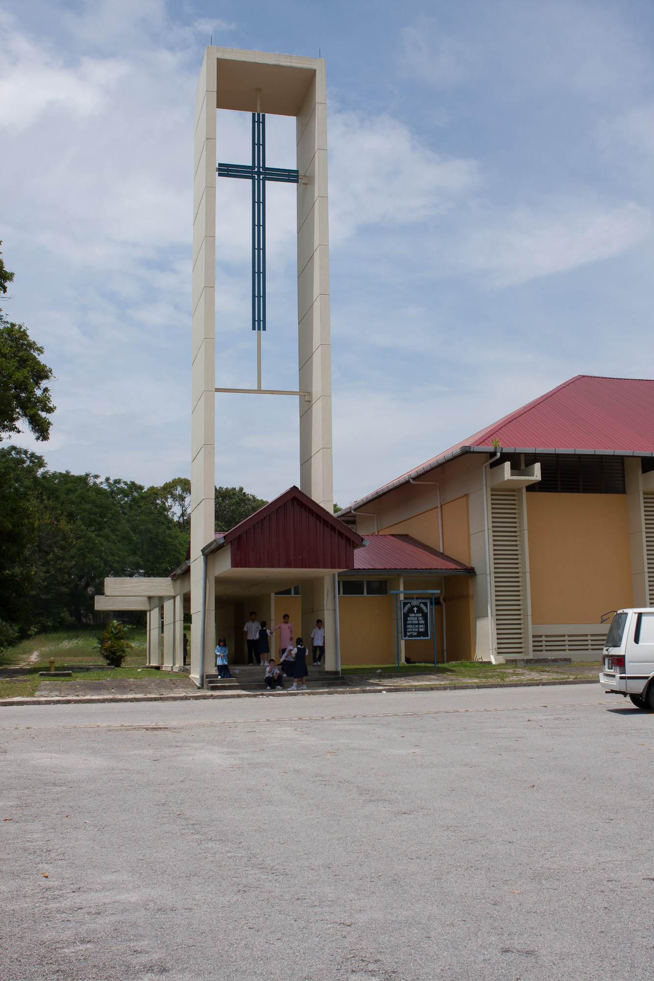 Corpus Christi Church in Terendak Camp, Malacca, Malaysia